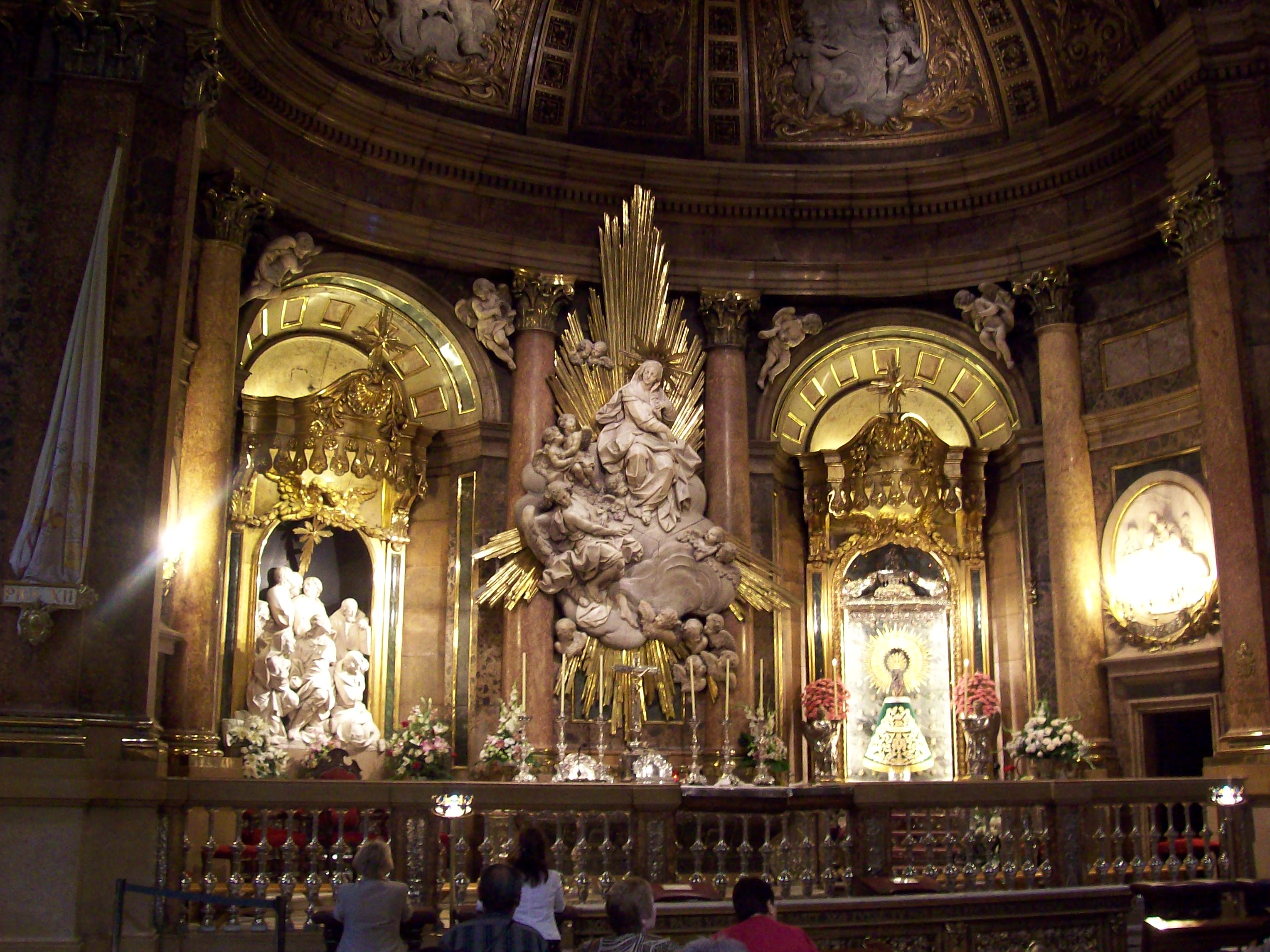 Chapel of the Basilica del Pilar in Zaragoza. From left to right: the image of Santiago and his Converted, the representation of the coming of the Virgin and the place where is the Holy Image of Our Lady of Pilar.